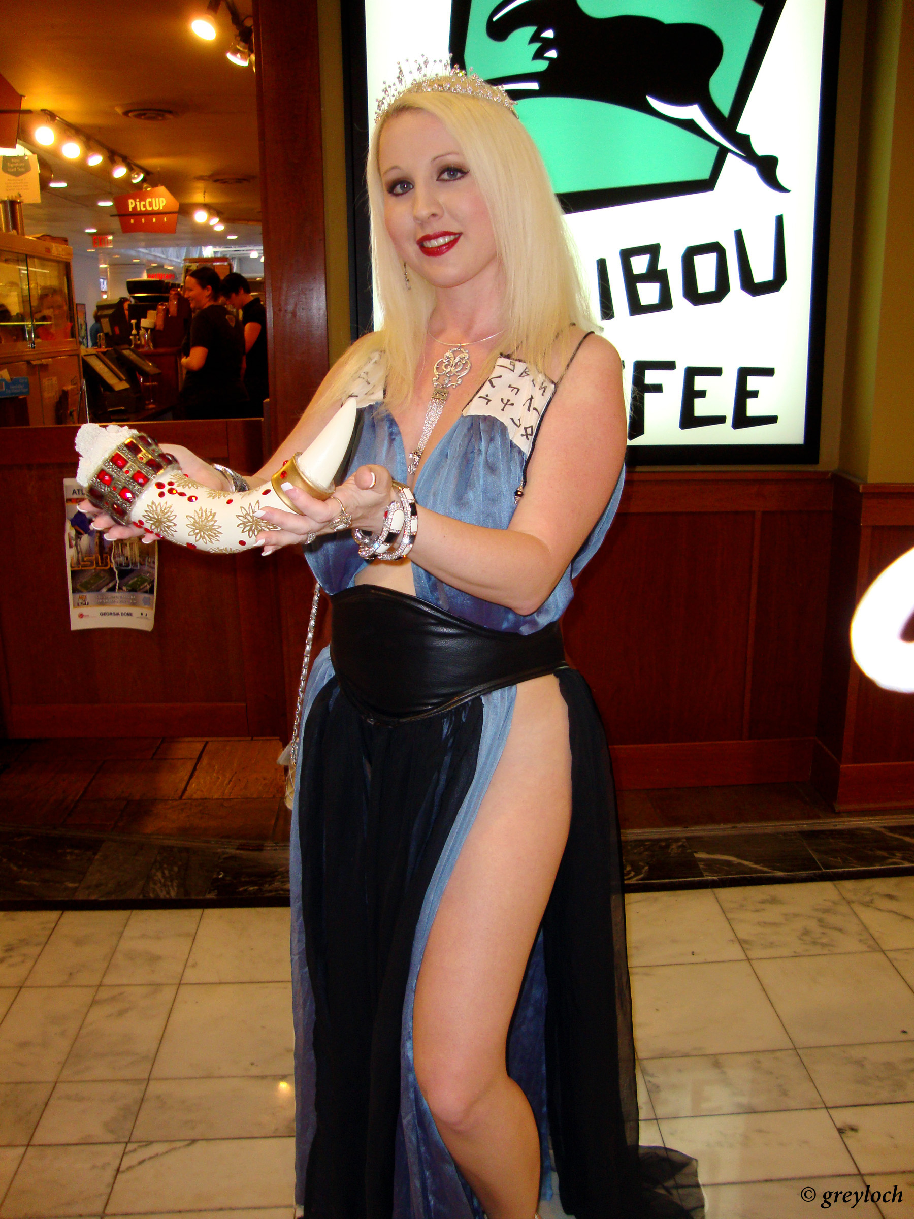 From "Conan the Destroyer" movie. I'm really becoming a fan of her costume work.